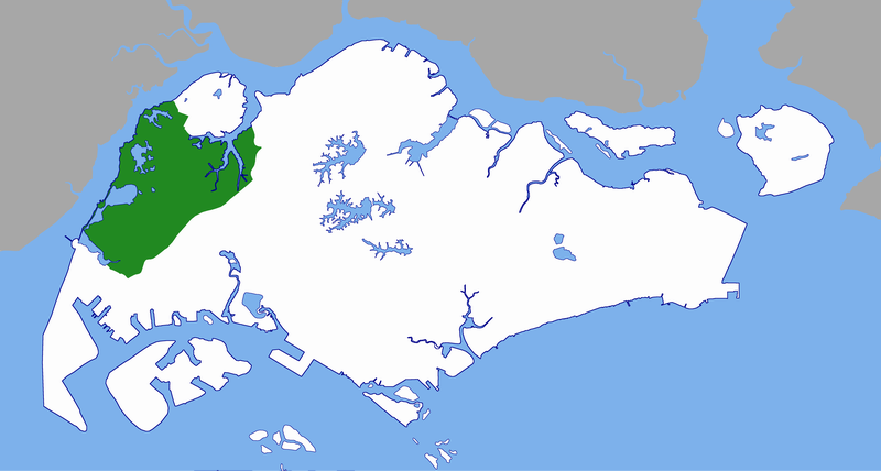 Created by Vsion